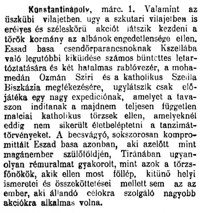 News on Esat Toptani in the Hungarian periodical Pesti Hirlap, issue March 2, 1903